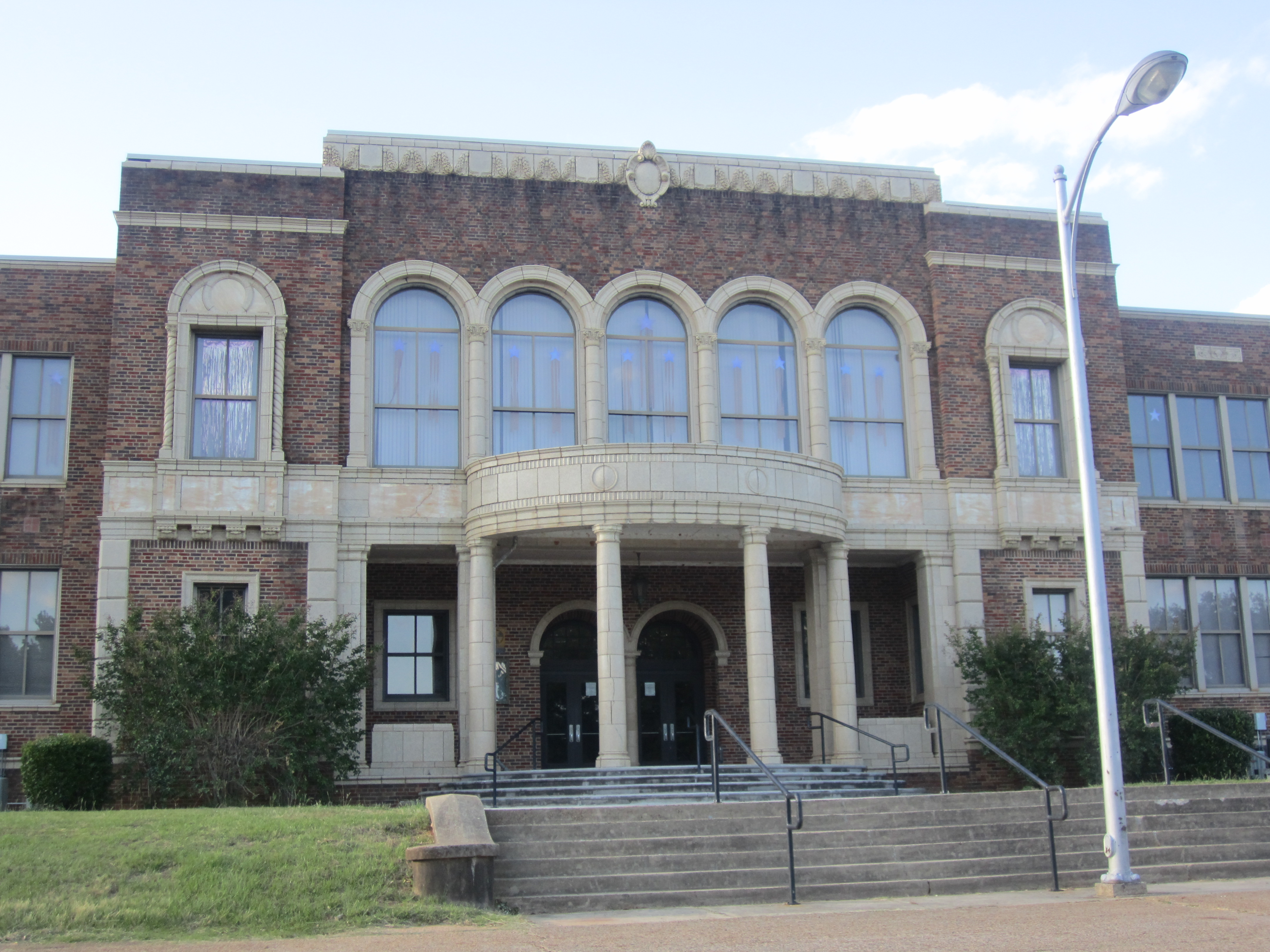 I took photo with Canon camera of Homer High School, Homer, LA.